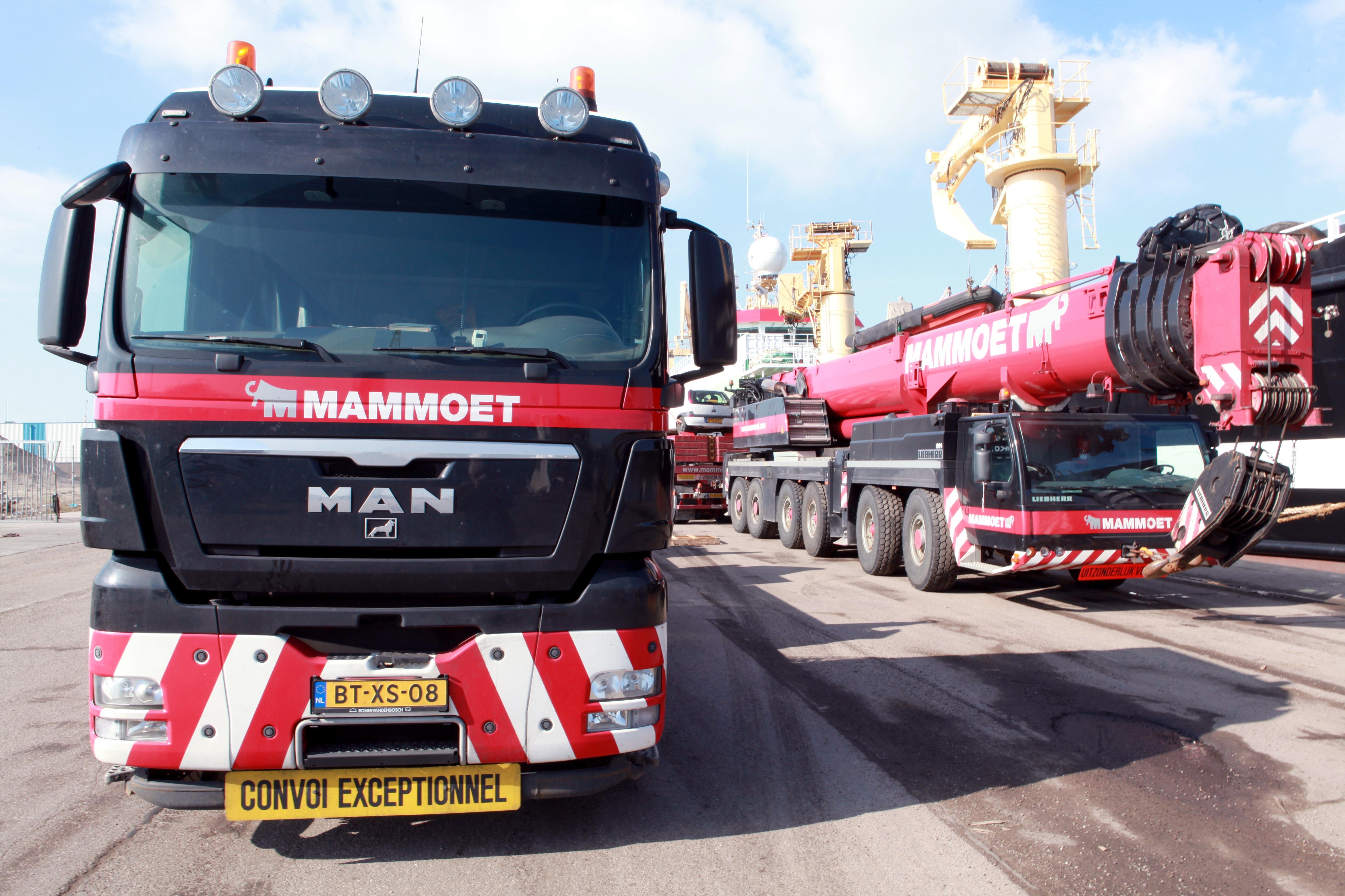 MAN TGX 33.540 Mammoet & Liebherr crane